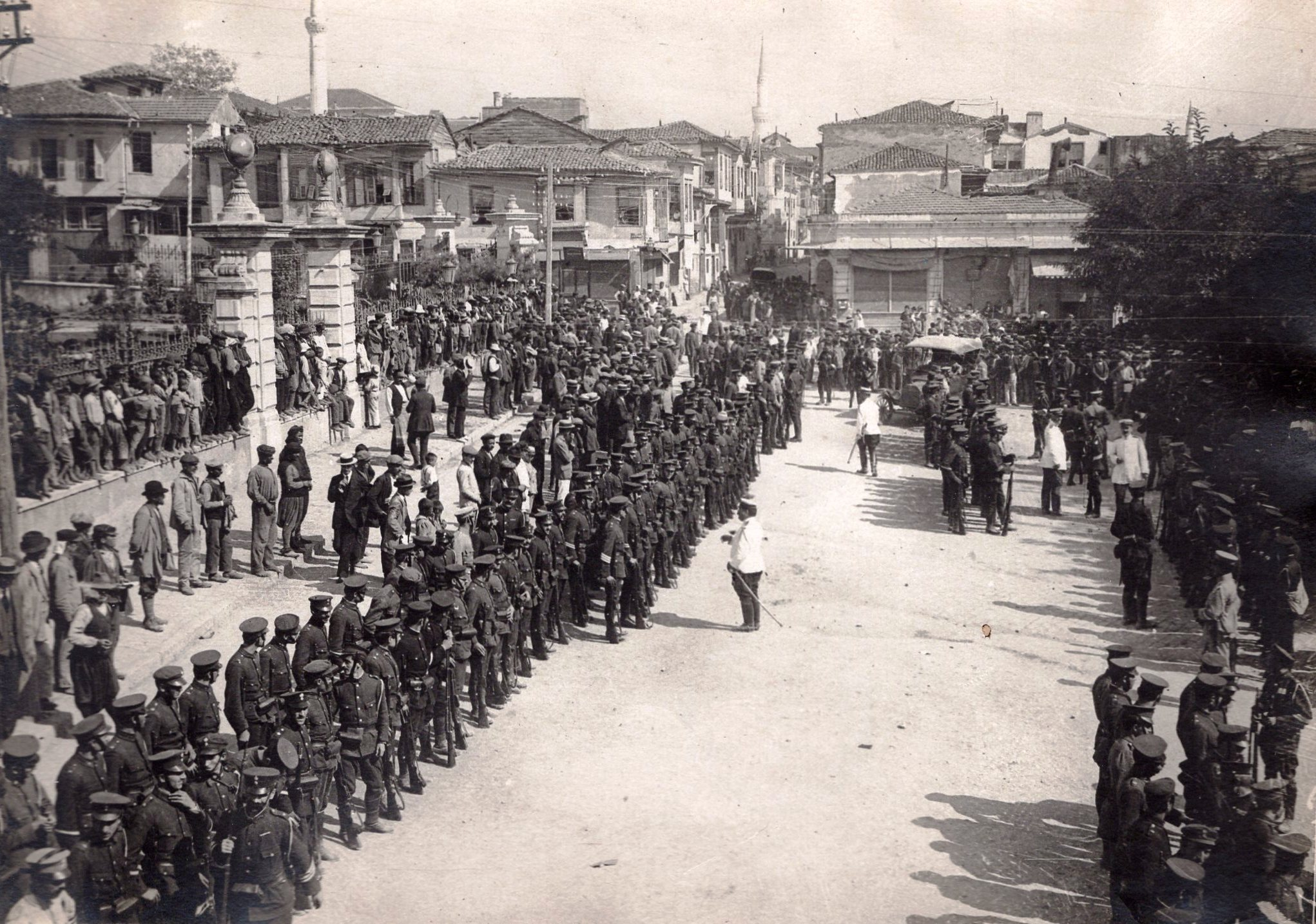 Војски во Солун, Прва светска војна